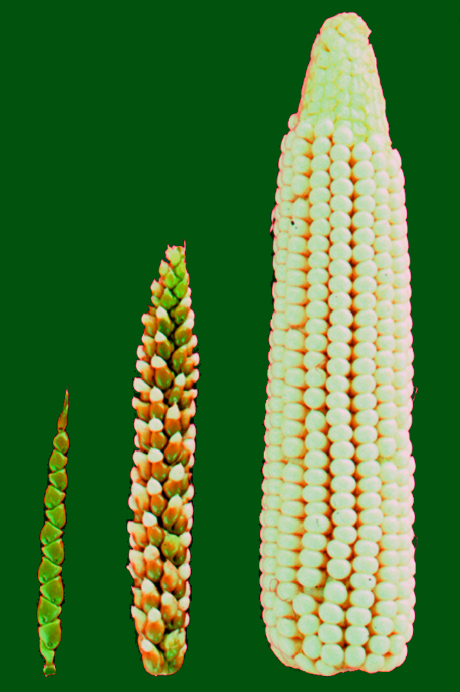 Wild forms of Zea mays are called 'Teosinte'. Image description: Over time, selective breeding modifies teosinte's few fruitcases (left) into modern corn's rows of exposed kernels (right). (Photo courtesy of John Doebley.).